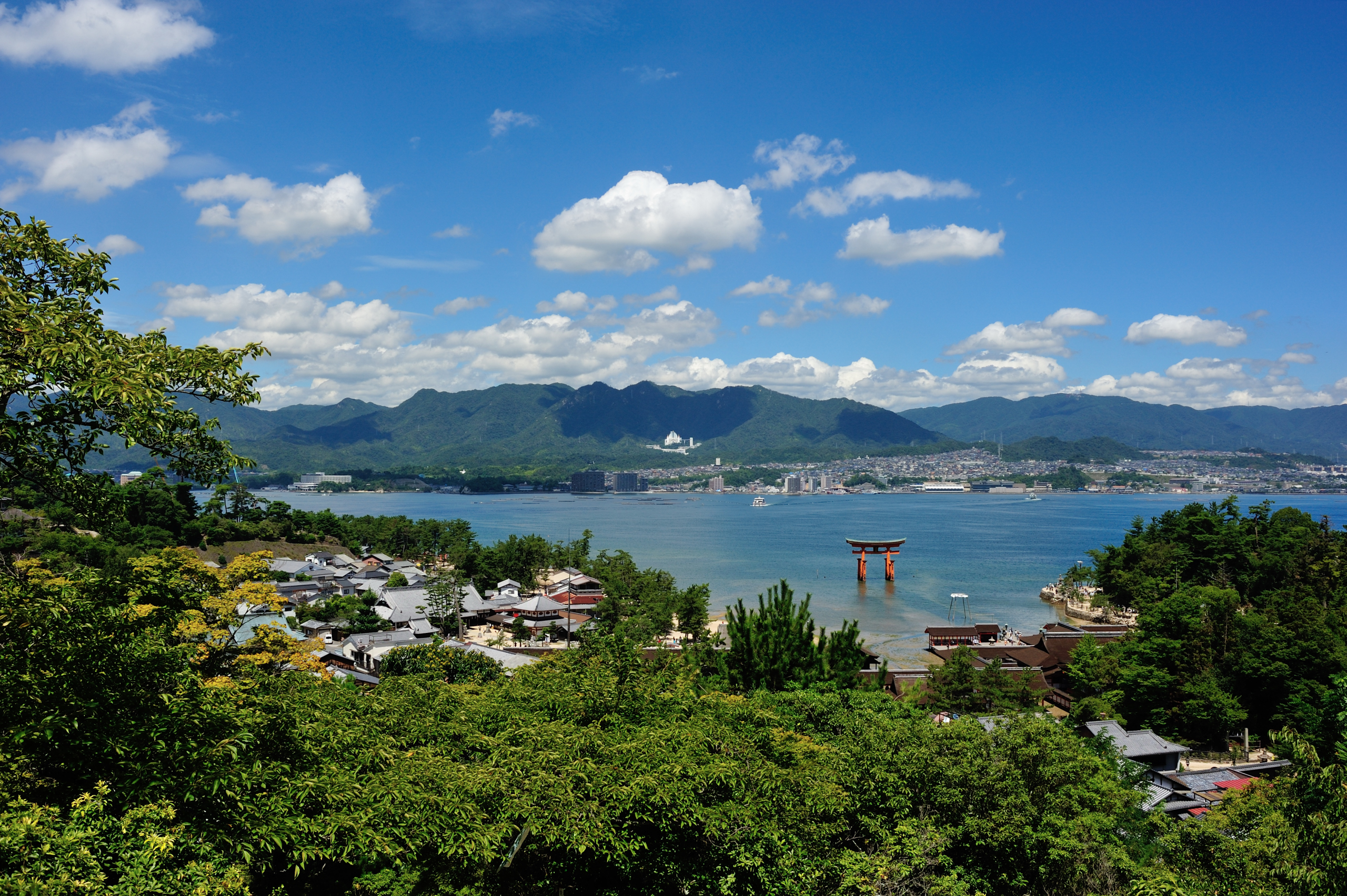 A view from the hiking trail on Miyajima island, Hiroshima Japan